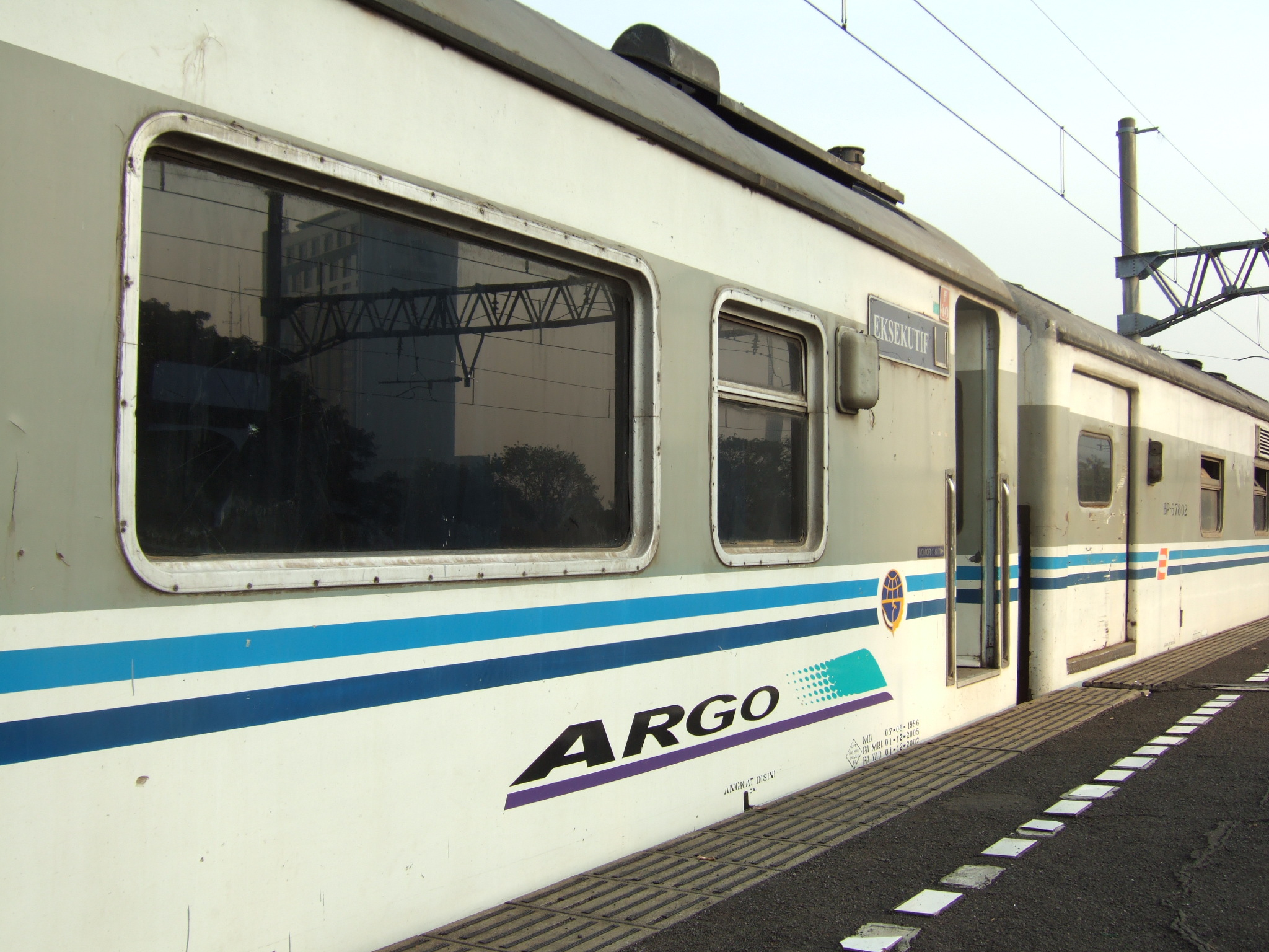 Executive class passenger car